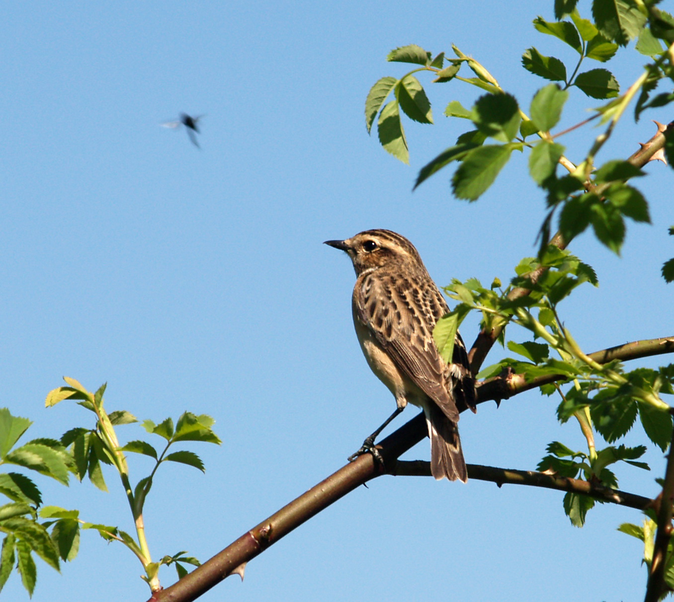 Whinchat (Saxicola rubetra), female adult; found in Chemnitz, Germany